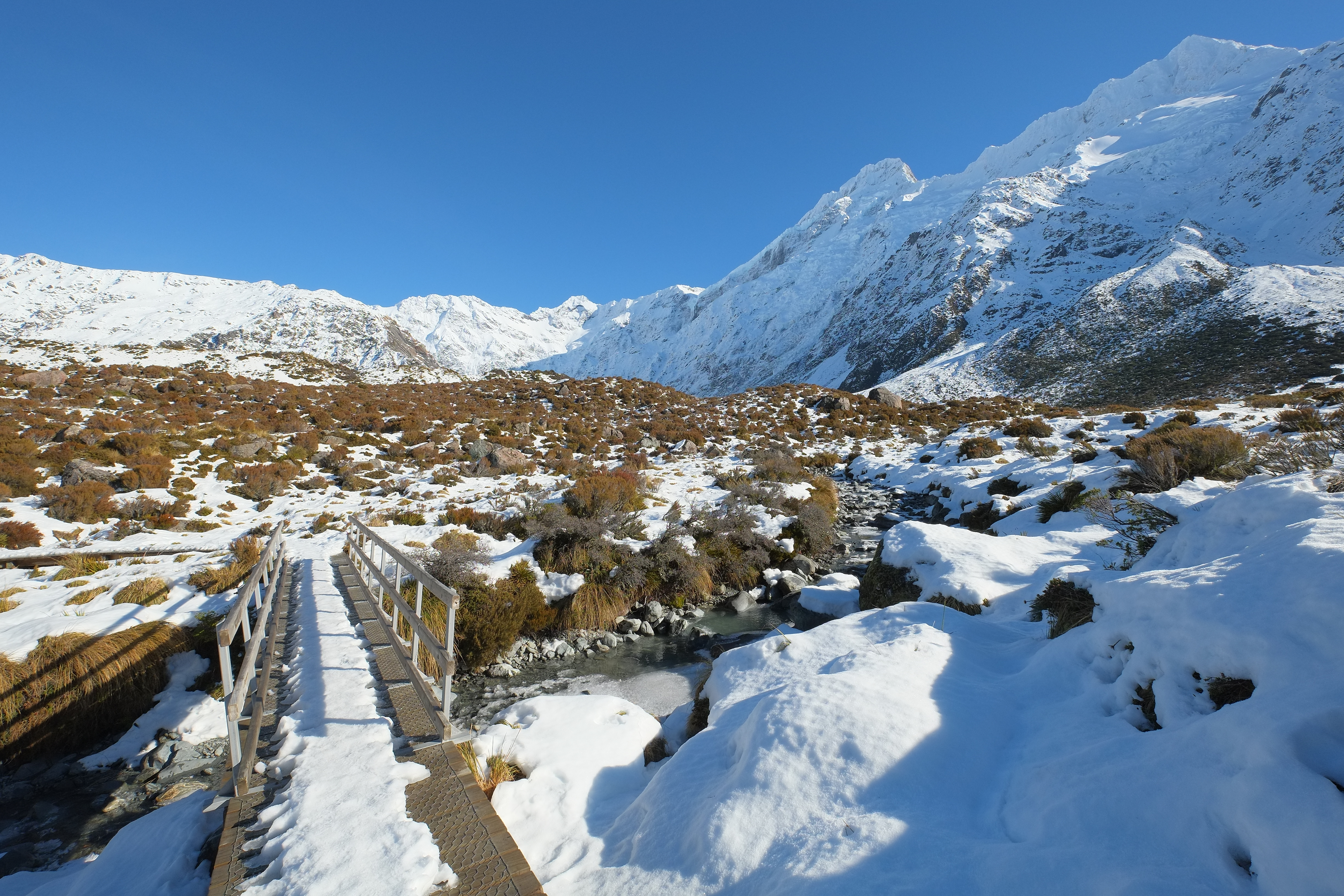 Bridge over Stocking Stream with snow on the ground in winter